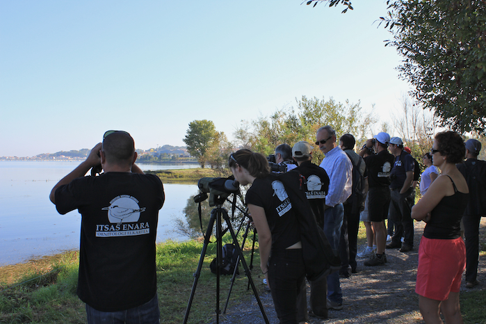 Members of IEOE and vistors, watching birds at Plaiaundi on Bird Day 2011